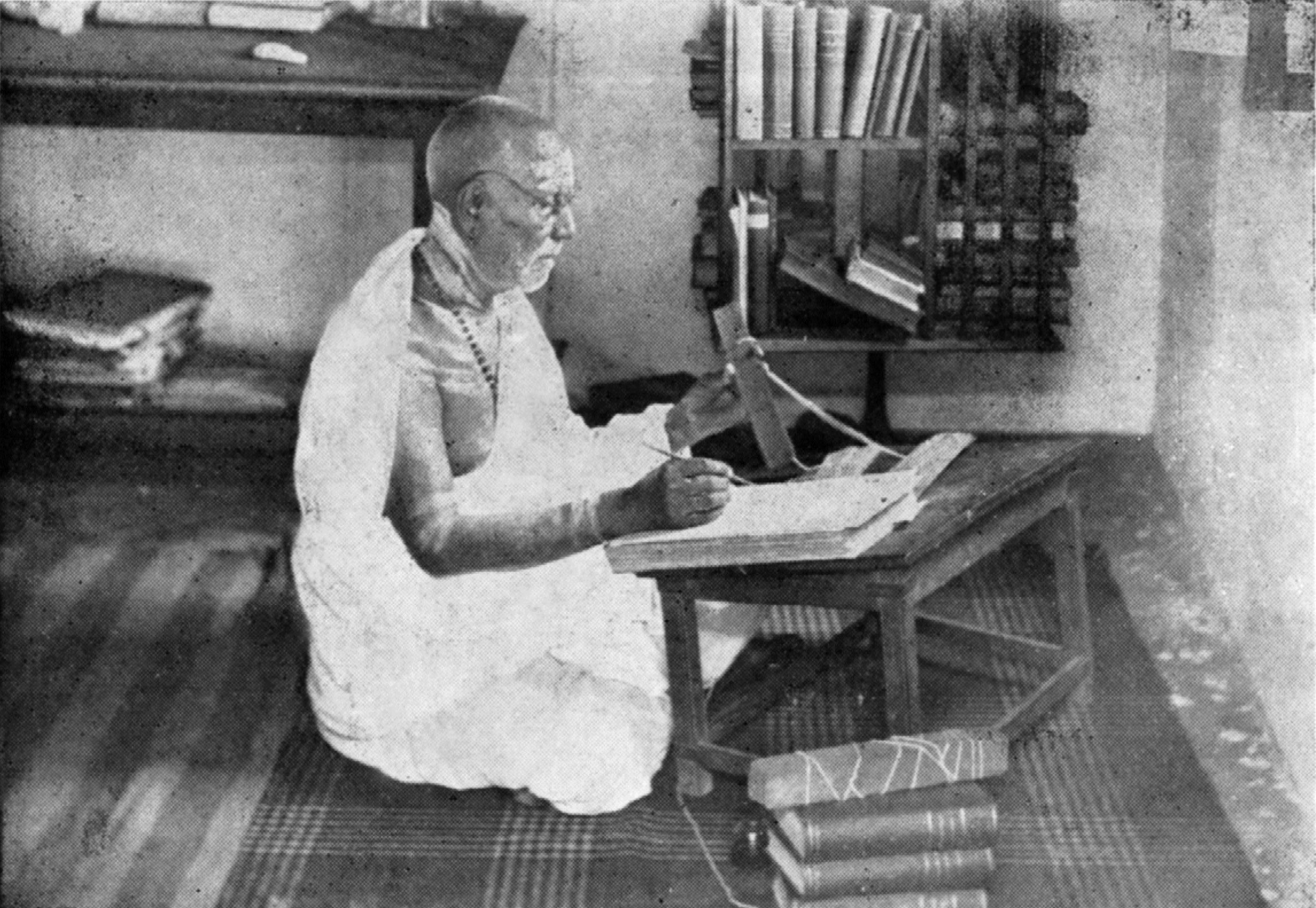 U. V. Swaminatha Iyer (1855–1942) stuying palm-leaf manuscripts